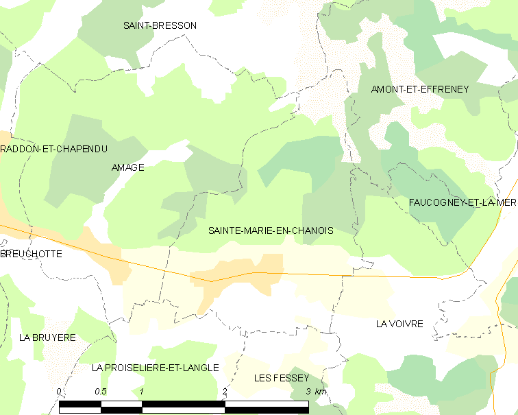 Map of French municipality